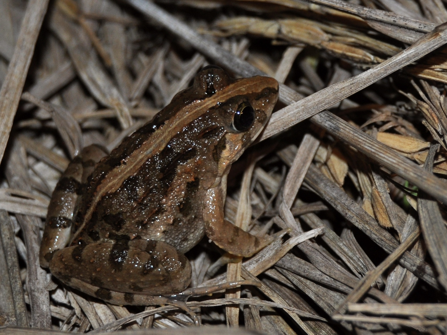 Fejervarya limnocharis with fine vertebral line and stripe; male. From Bogor, West Java, Indonesia.